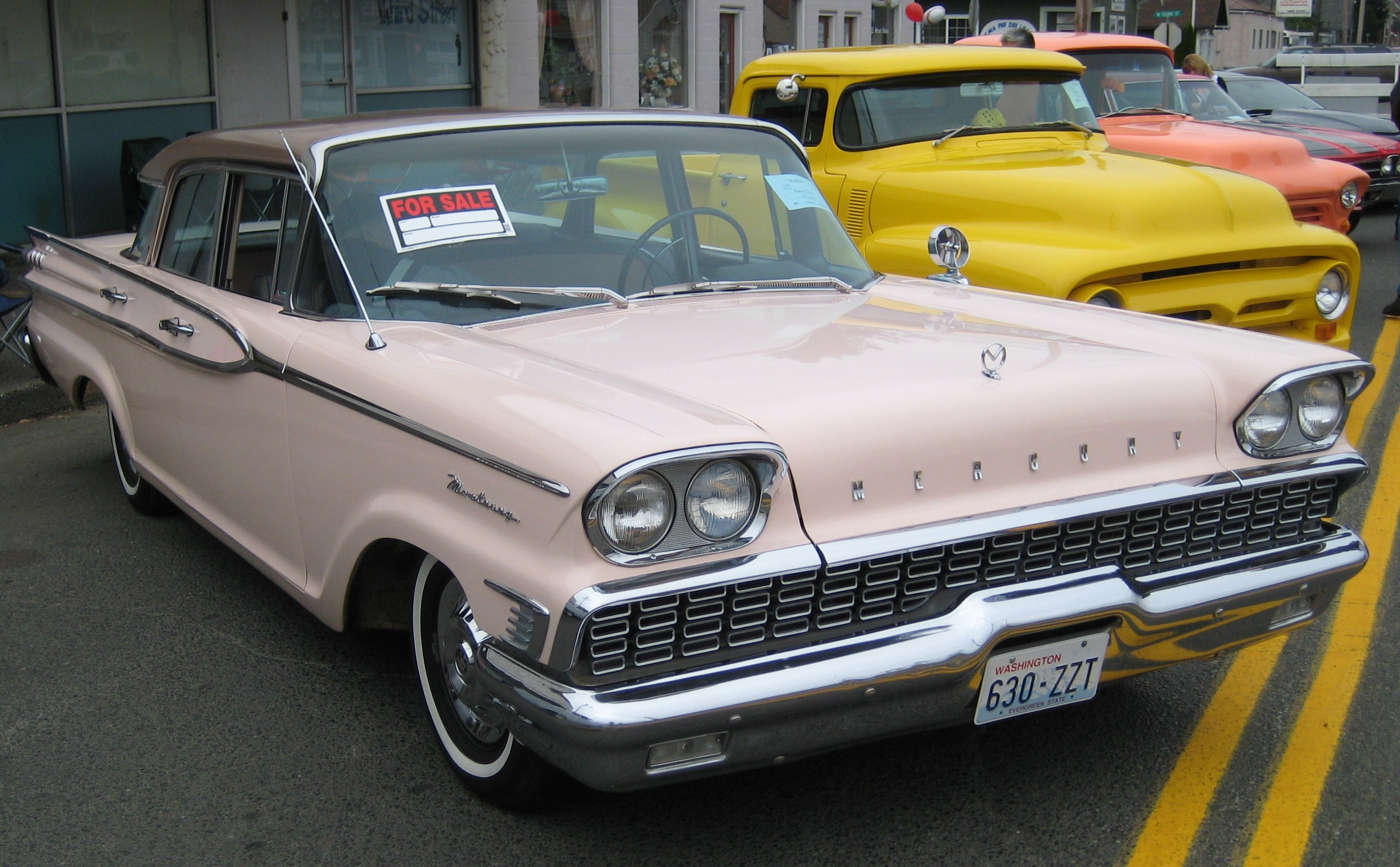 1959 Mercury Monterey